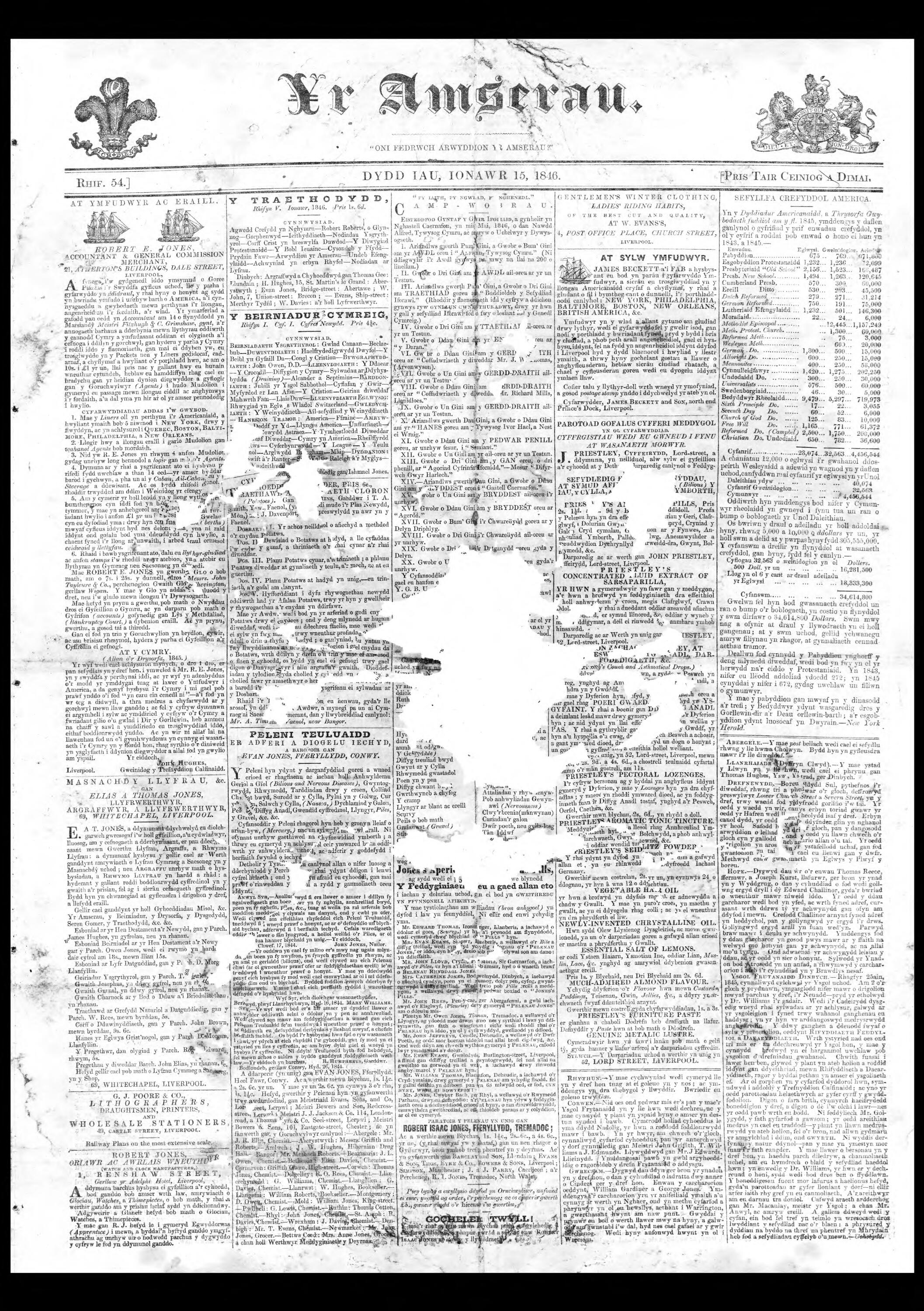 Front page of the earliest surviving copy of the Welsh newspaper Yr AmserauCymraeg: Tudalen flaen y copi cynharaf sydd yn bodoli o'r papur newydd Cymraeg Yr Amserau